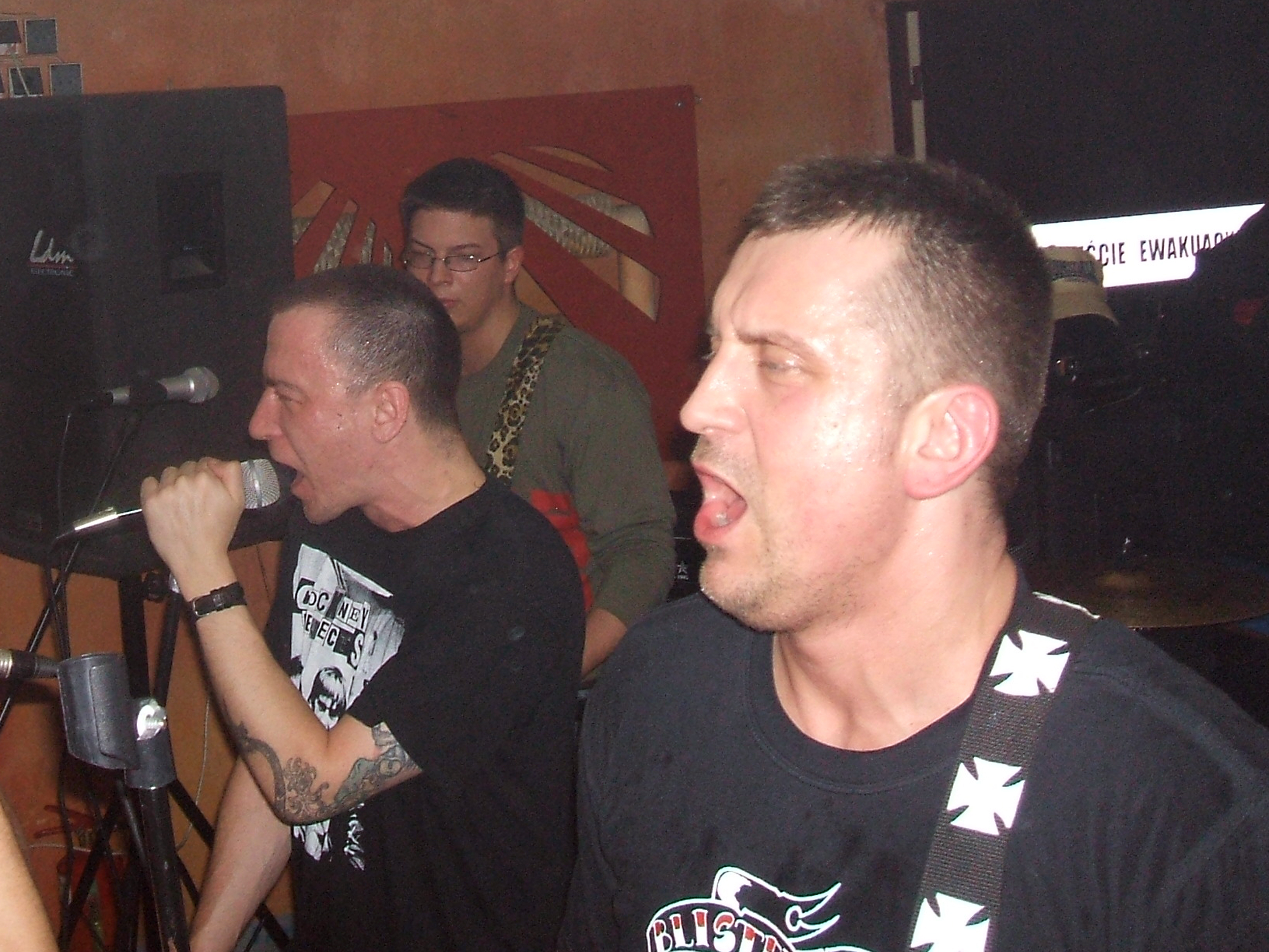 The Analogs during concert in Tczew